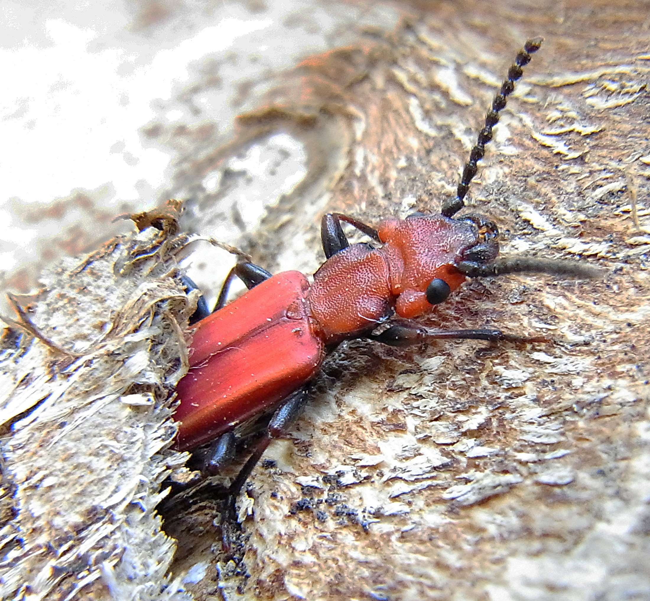 Cucujus cinnaberinus from Hungary, forest beside river Tisza, northeast of town Szolnok, under bark of dead black poplar